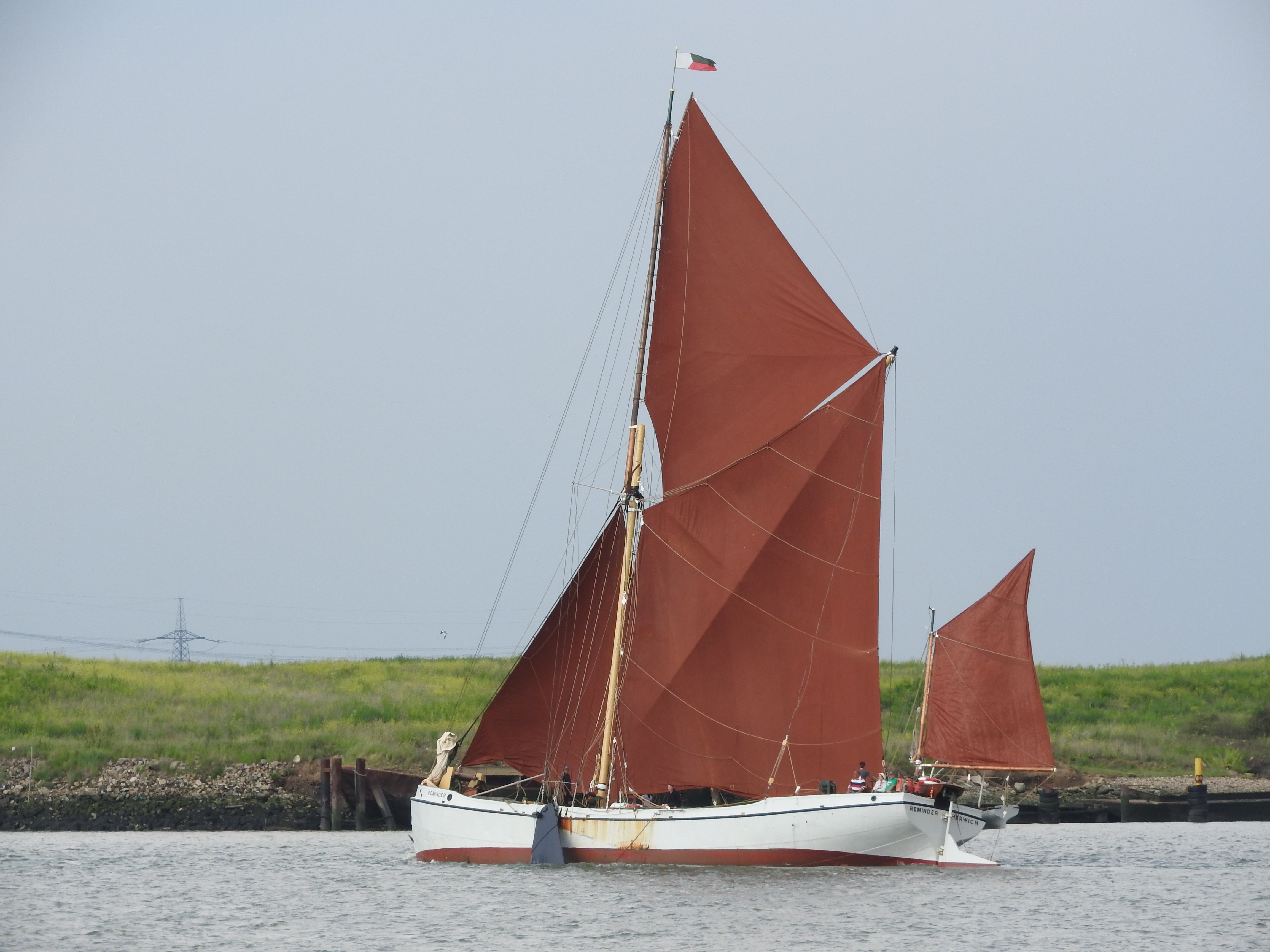 Reminder arrived to compete in the 109th Medway Barge Sailing match, viewed from Gillingham Pier.